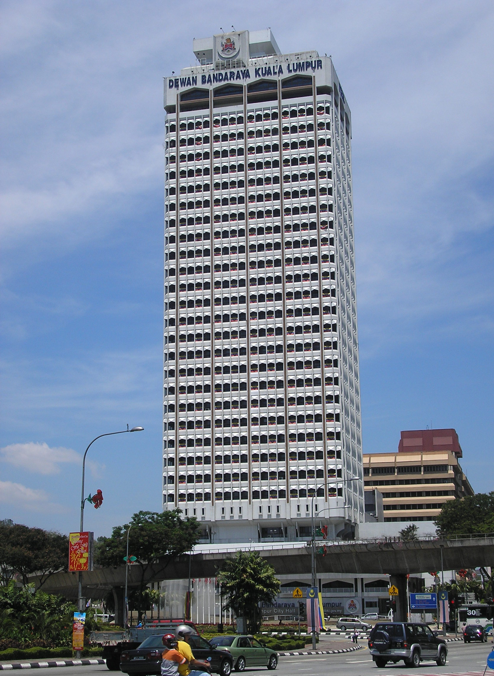 The current Kuala Lumpur City Hall (Malay: Dewan Bandaraya Kuala Lumpur) building at the Jalan Parlimen (Parliment Road)-Jalan Raja Laut (Raja Laut Road) intersection in Kuala Lumpur, Malaysia. The office tower was built to replace the pre-war City Hall building, located just down the adjoining Jalan Raja (Raja Road), as the base of operation for City Hall.